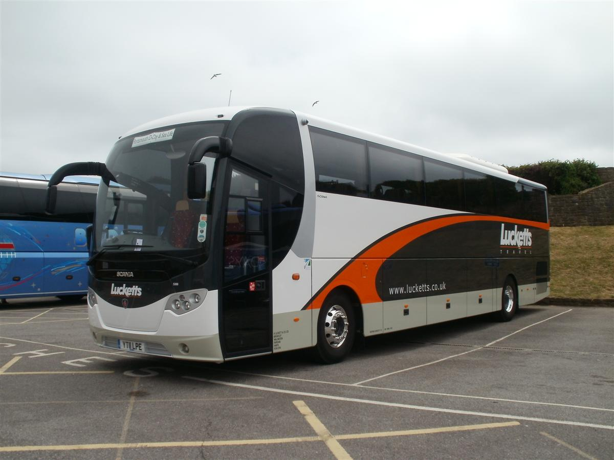 YT11 LPE Scania K400EB4, Lahden Omniexpress C53Ft Lucketts Travel, Fareham UK. (Fleetnumber 5360) Photographed at Southsea, D-Day Museum Car Park (UK) - 30 May 2001